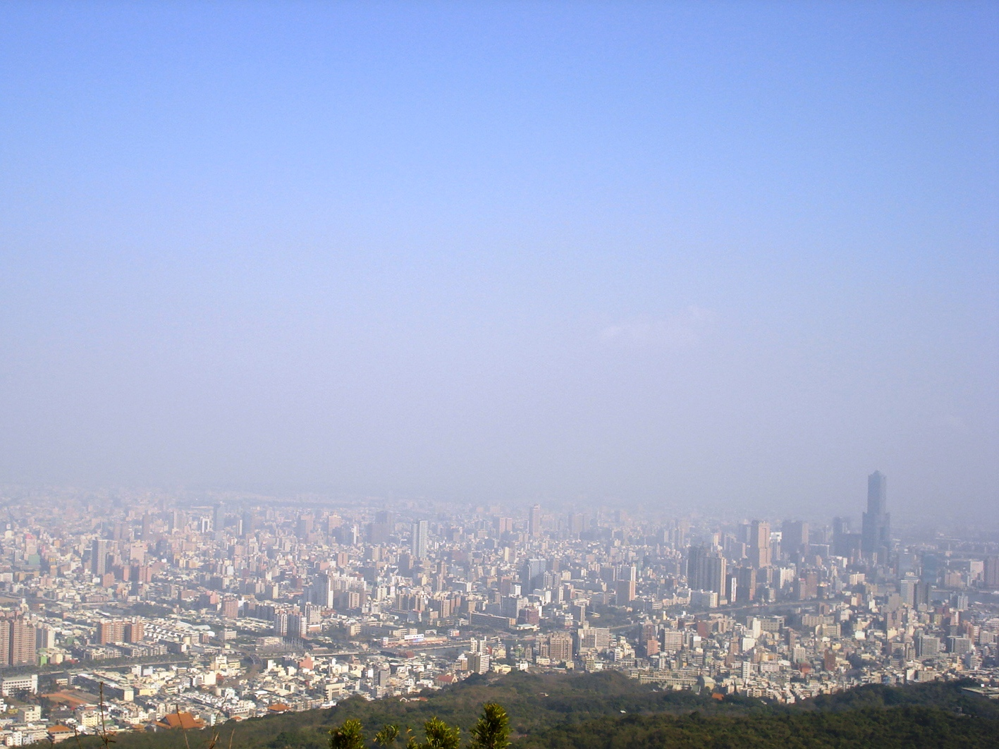 Skyline of Kaohsiung City from Ape Hill in Taiwan.